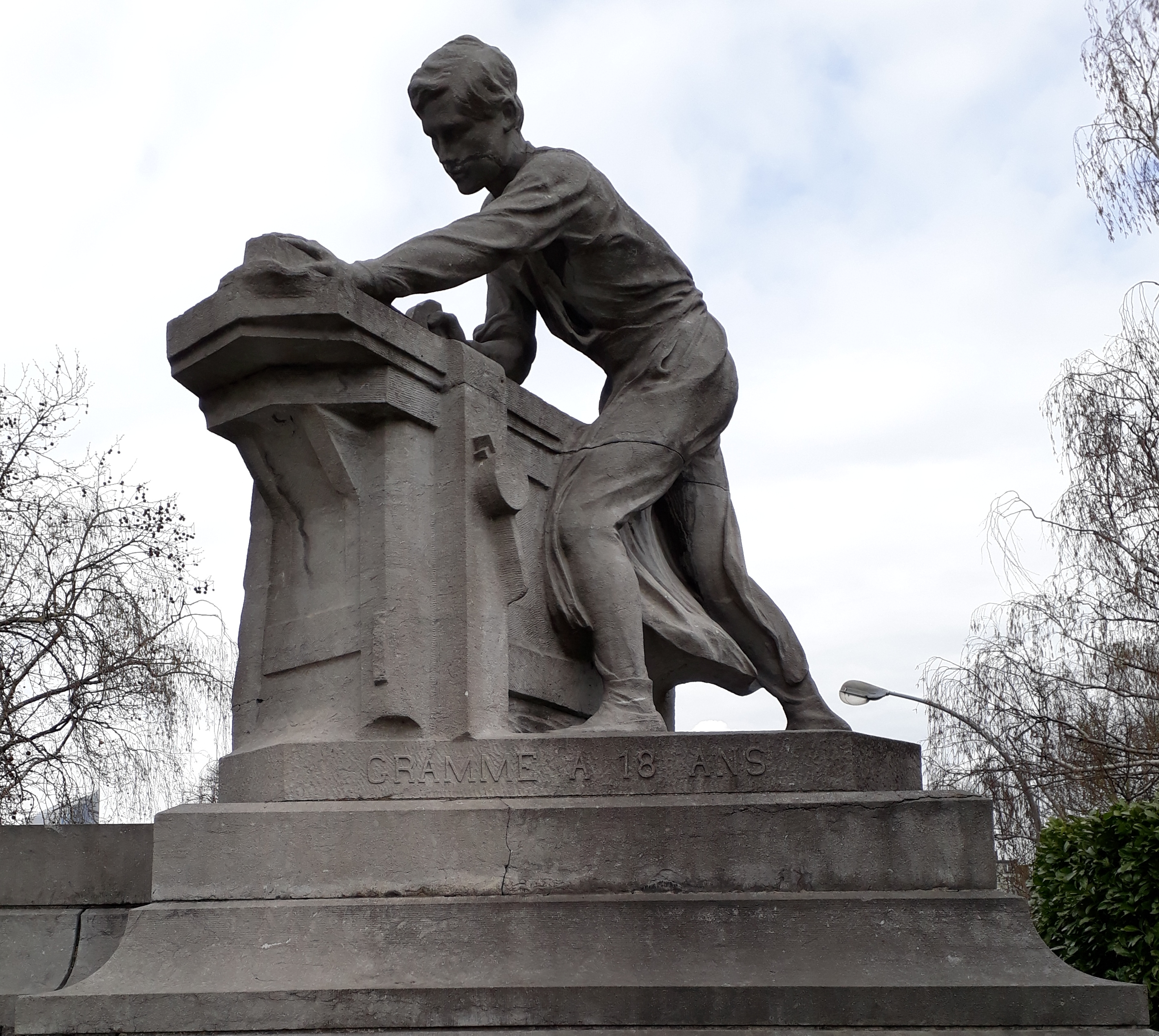 Monument Gramme, Liège, Belgium - Statue on the right, Zenobe Gramme, 18 y, carpenter